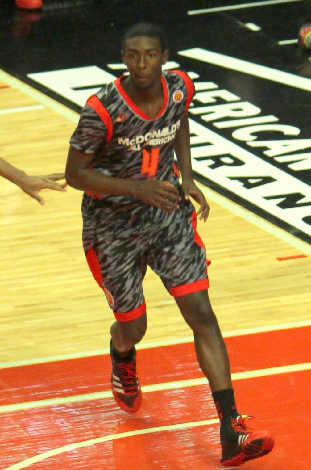 Isaac Hamilton in the w:2013 McDonald's All-American Boys Game